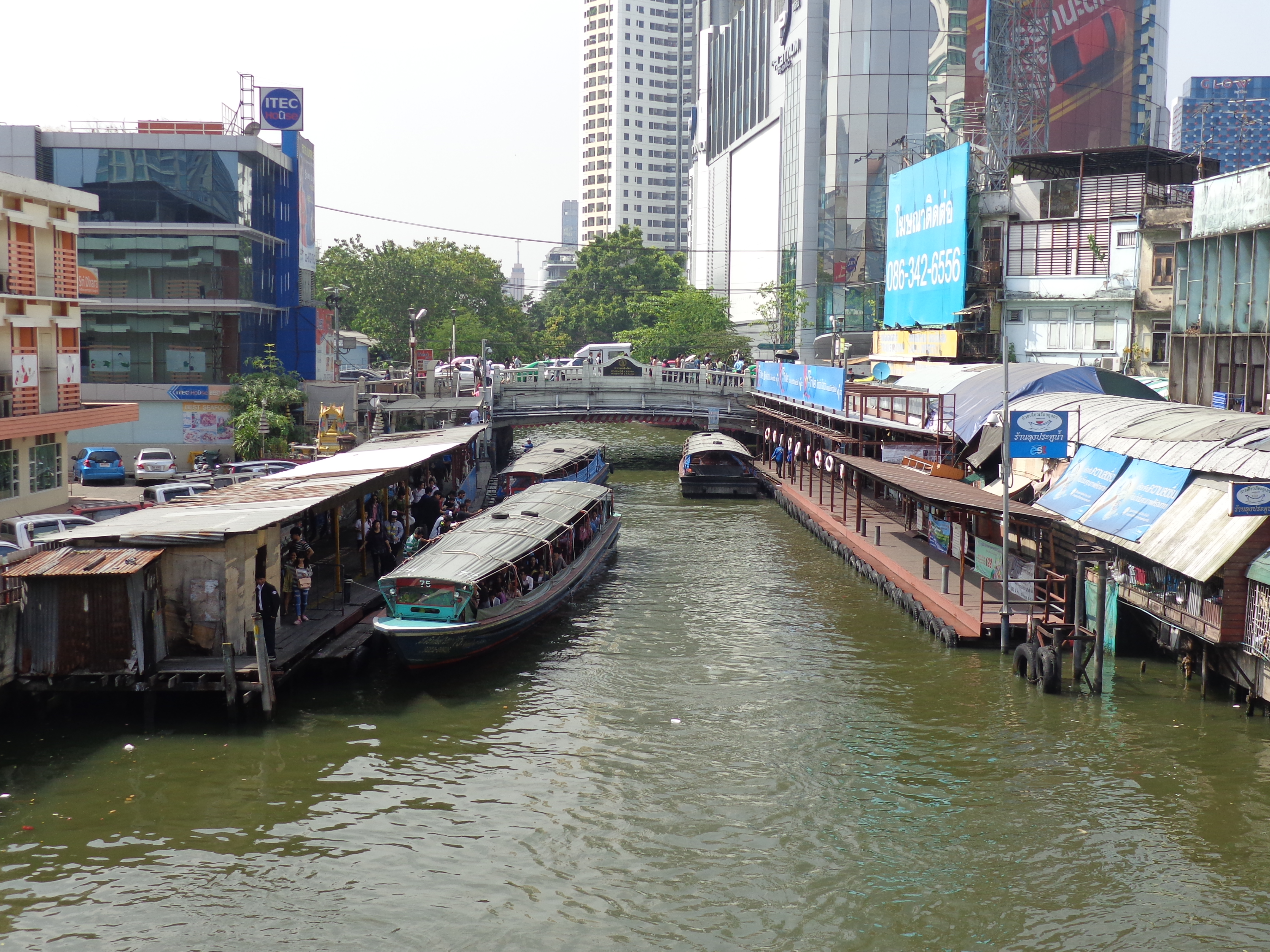 Major ferry boat stop Khlong Saen Saep boat service Bangkok